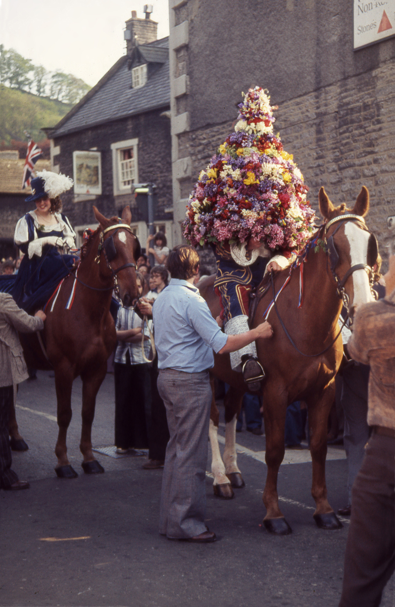 Garland King, wearing garland, and his consort, both dressed in Stuart costume, about to lead the procession, Garland Day (May 29), Castleton, Derbyshire, c1976